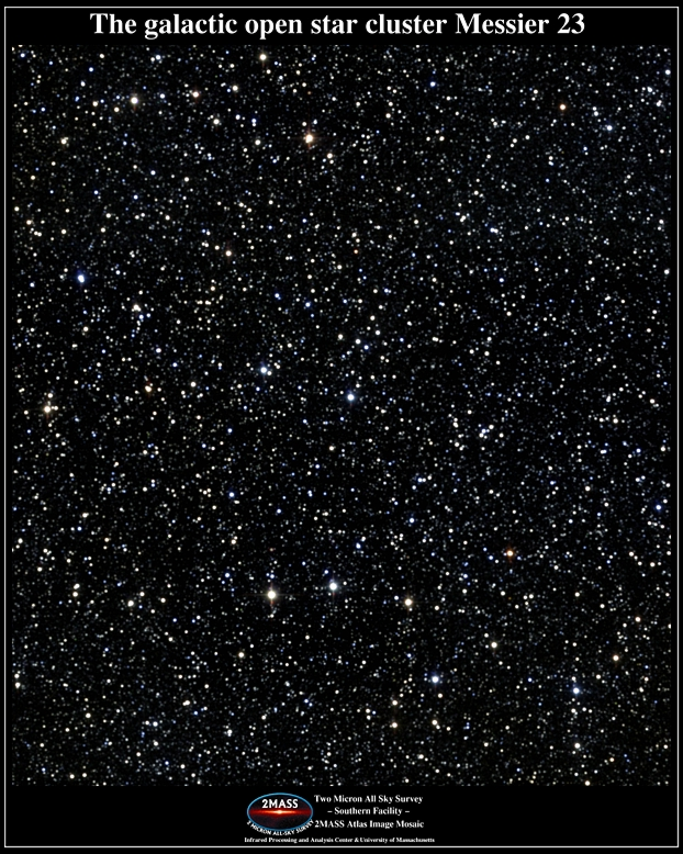 The galactic open star cluster Messier 23